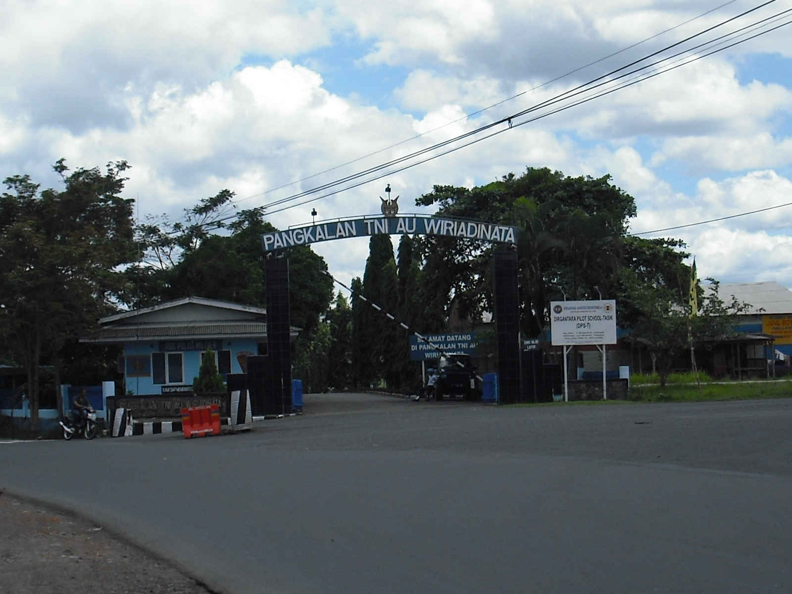 Wiriadinata Air Force Base